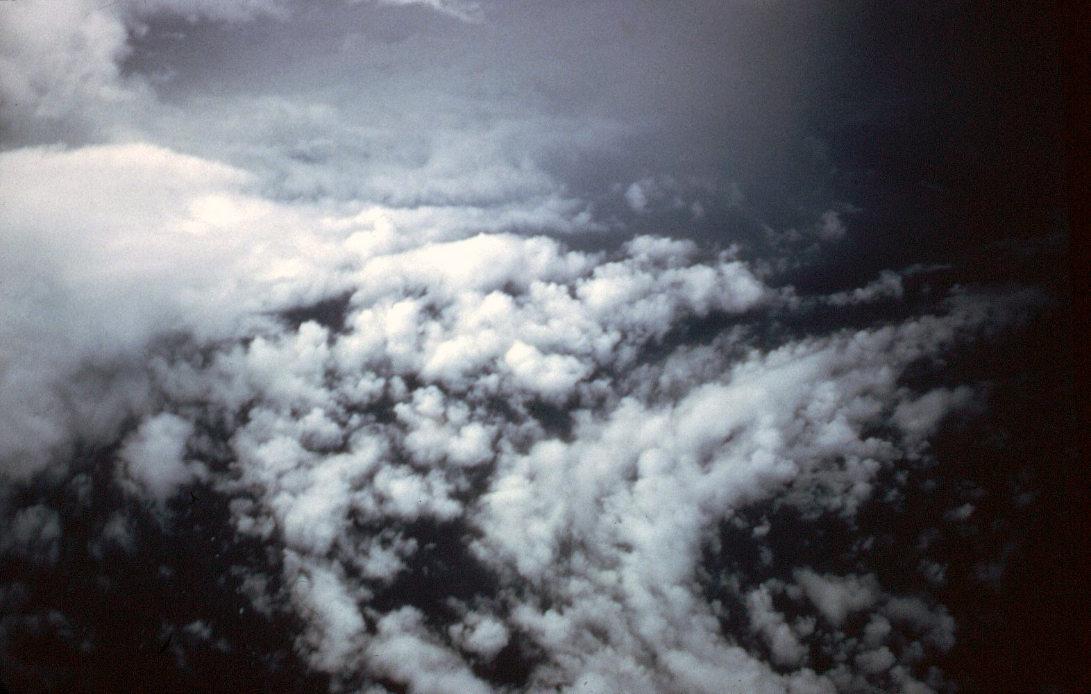 Eye of Hurricane Caroline taken from NOAA DC-6.